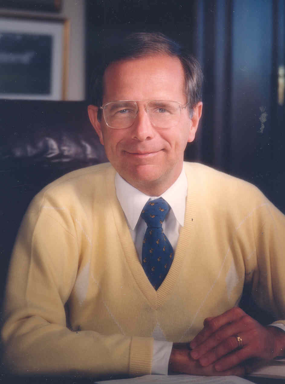 Portrait of William Joseph "Bill" Agee.